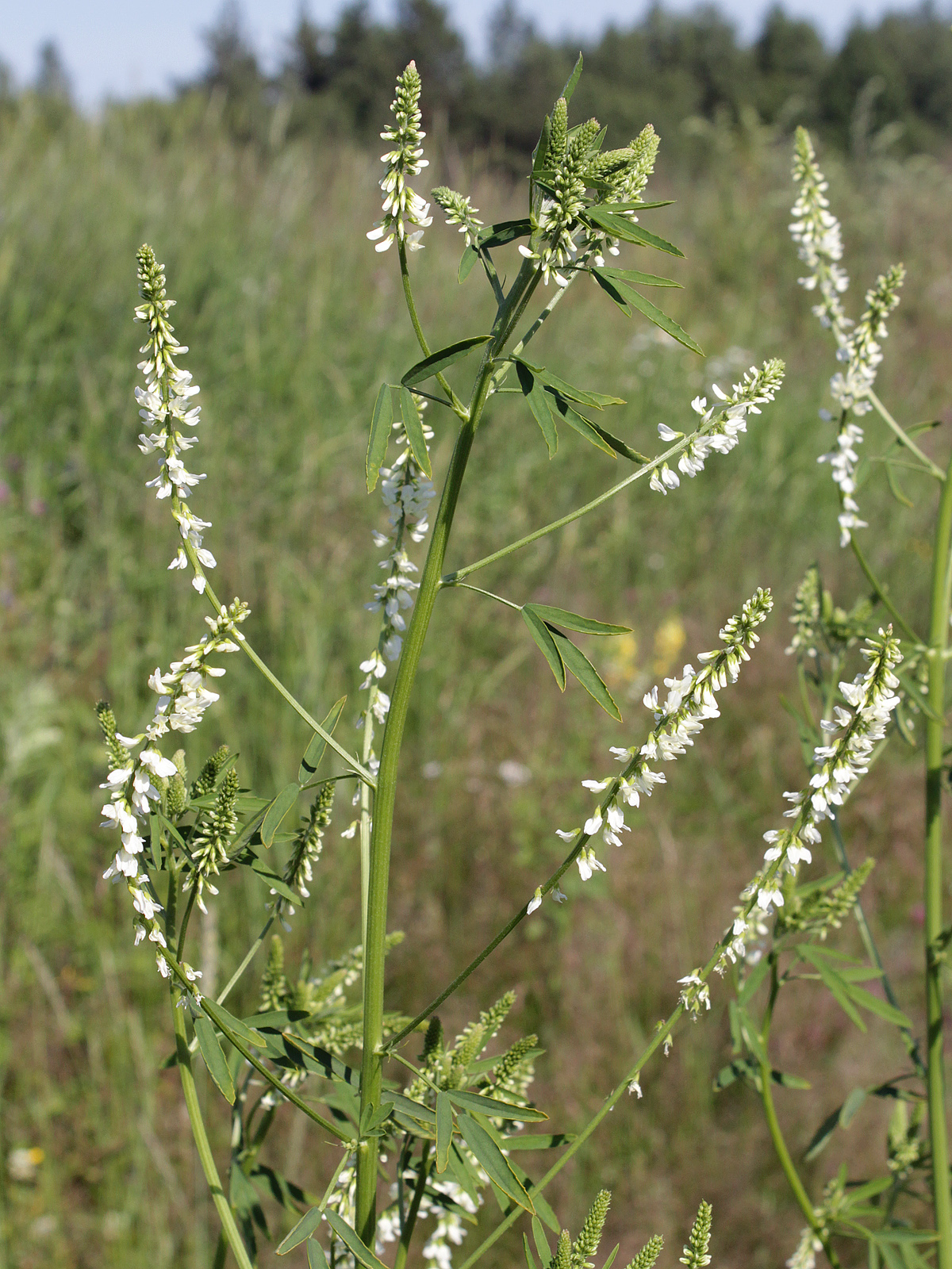 Fabaceae, Melilotus albus